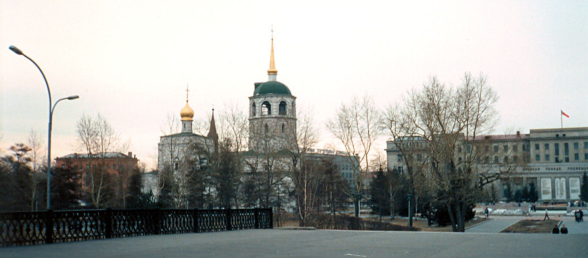 Irkutsk, Siberia 1990: Church Of Our Saviour (left), Eternal flame and memorial to the Unknown Soldier (right), House of Soviets (behind the memorial).